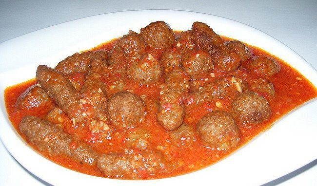 This is an image of food from Egypt